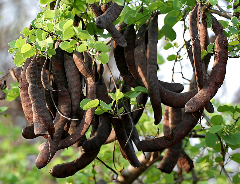 Jhinjheri, apta or SonTaaka Bauhinia racemosa at Deer Park in Shamirpet, Rangareddy district, Andhra Pradesh, India.